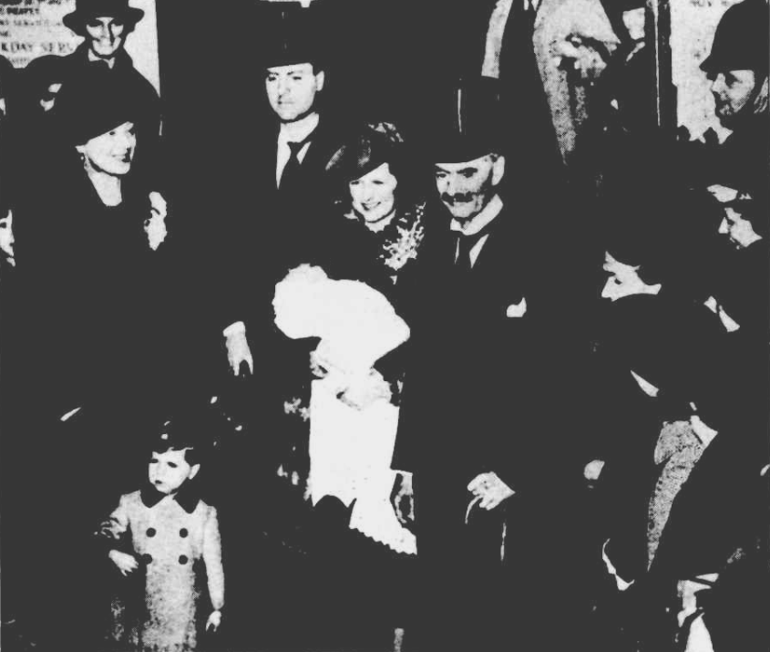 Old Caption: MR. and Mrs. Neville Chamberlain leaving Chelsea Old Church after the christening ceremony of their little granddaughter, Anne Mary, daughter of Mr. and Mrs. Stephen Lloyd